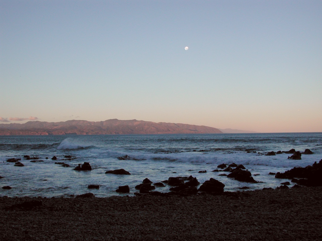 Moon over south end of Rimutaka Range (Turakirae Head, Orongorongo Range) at sunset.